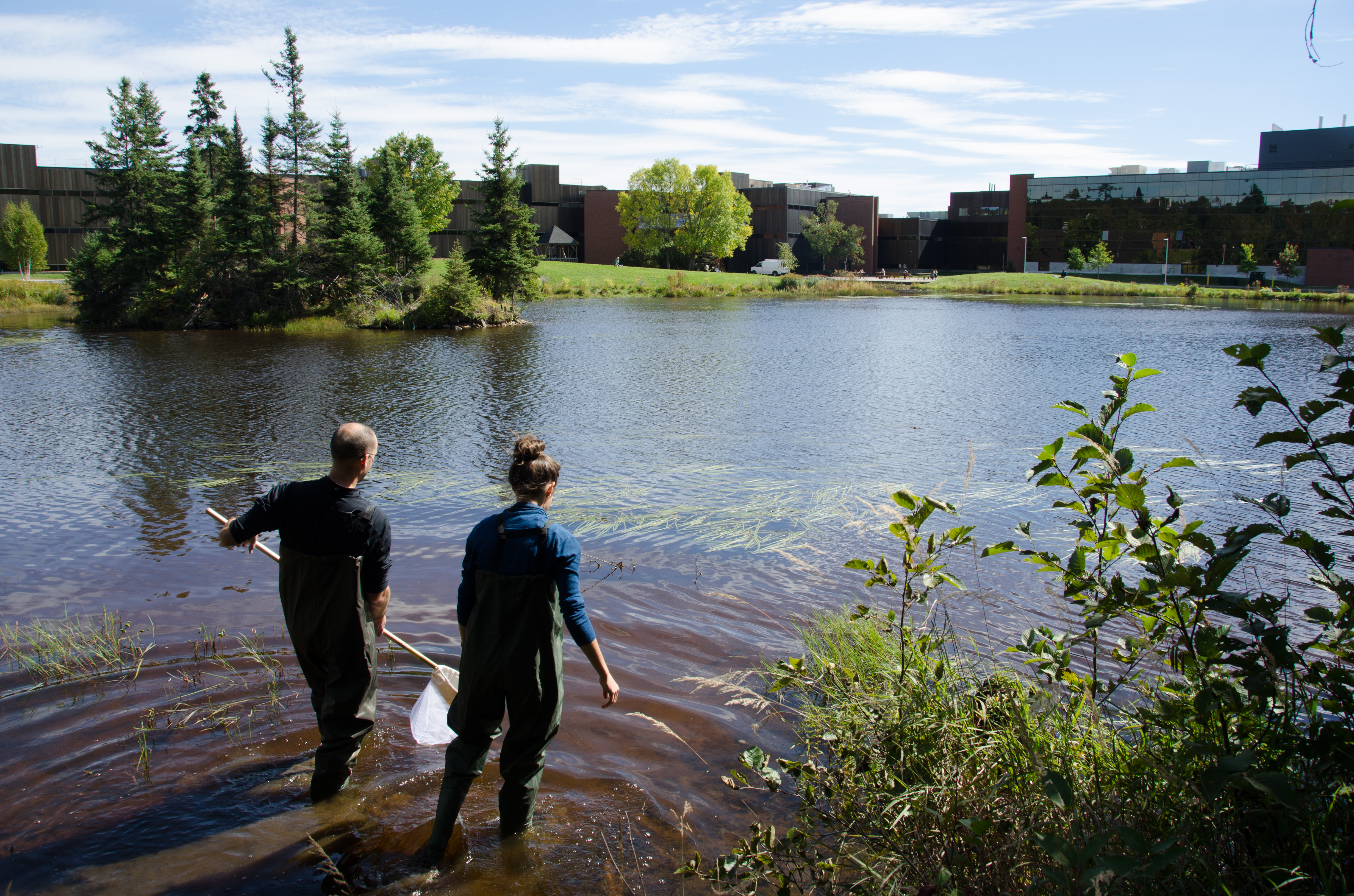 A picture of the pond behind Nipissing University, which is often used for research